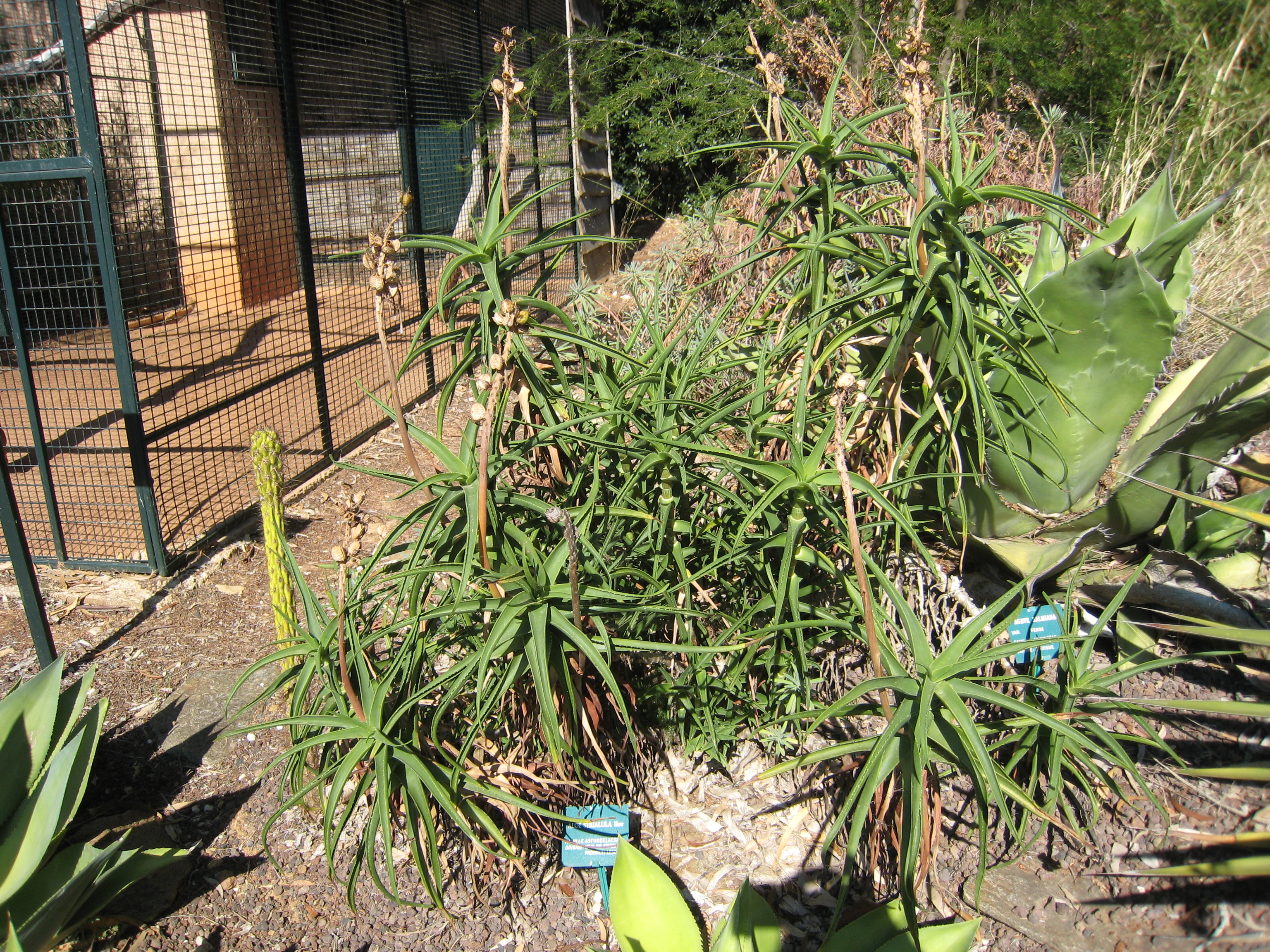 Aloe striatula in jardin d'oiseaux tropicaux